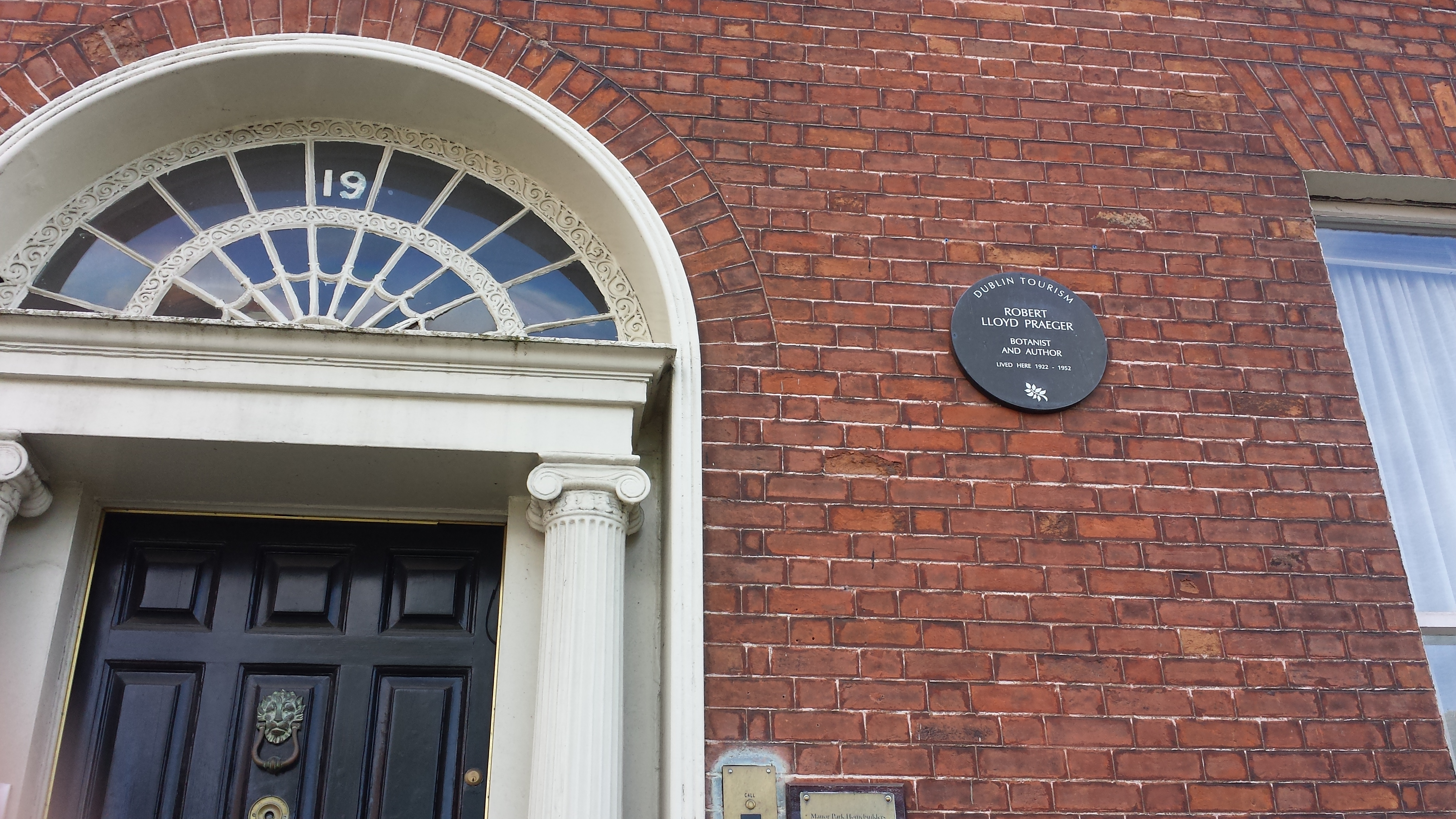 Botanist and Author lived here 1922-1952